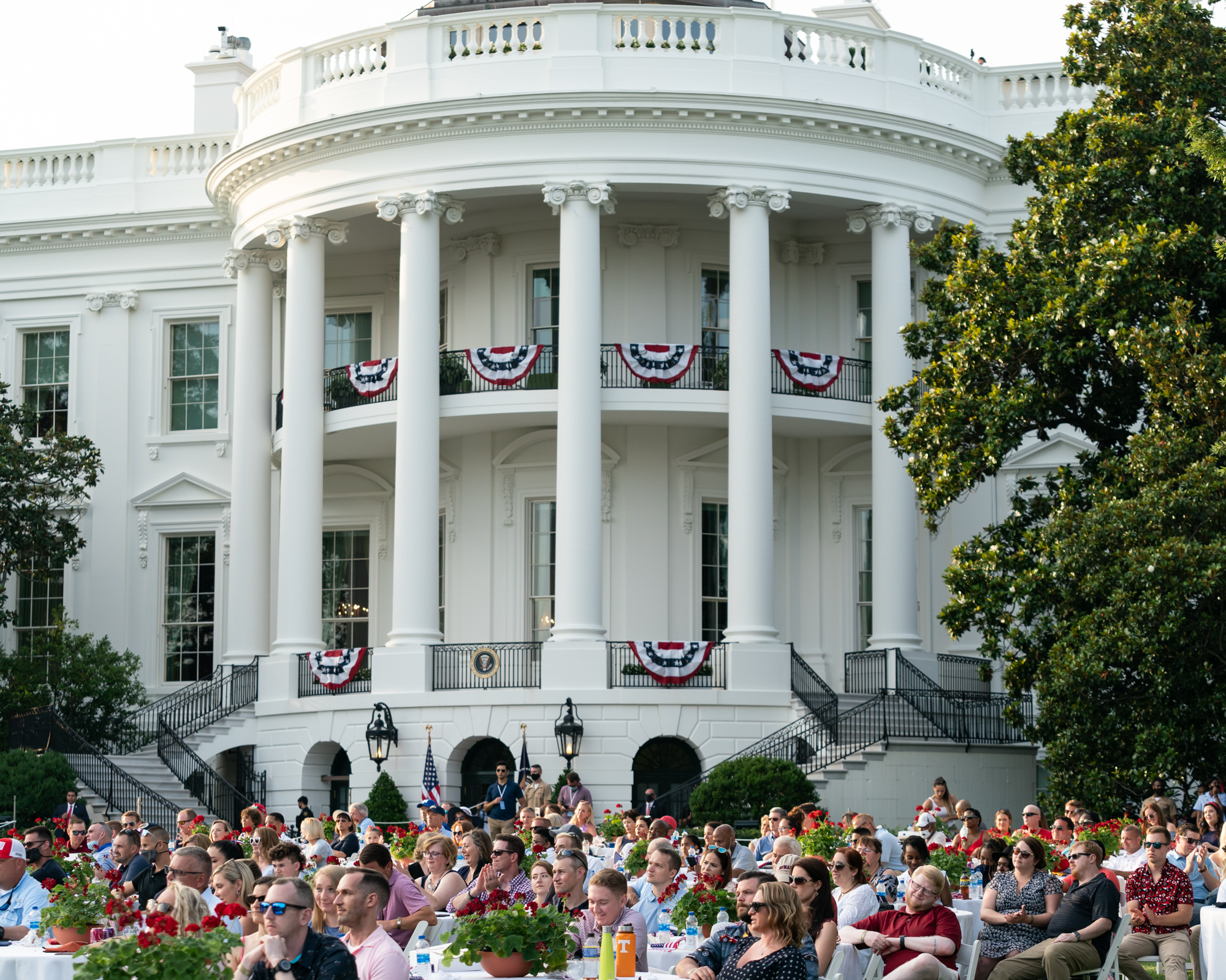 Guests attending the 2020 Salute to America event listen as President Donald J. Trump delivers remarks Saturday, July 4, 2020, on the South Lawn of the White House. (Official White House Photo by Andrea Hanks)